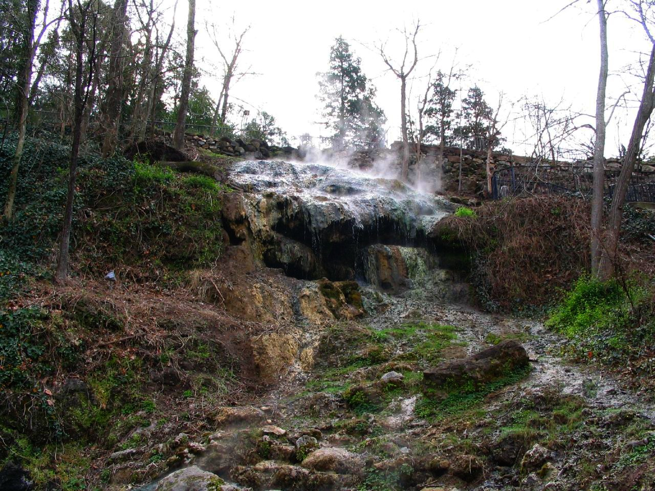 Series of natural Hot Springs near Bathhouse Row, Hot Springs National Park, Hot Springs, Arkansas.